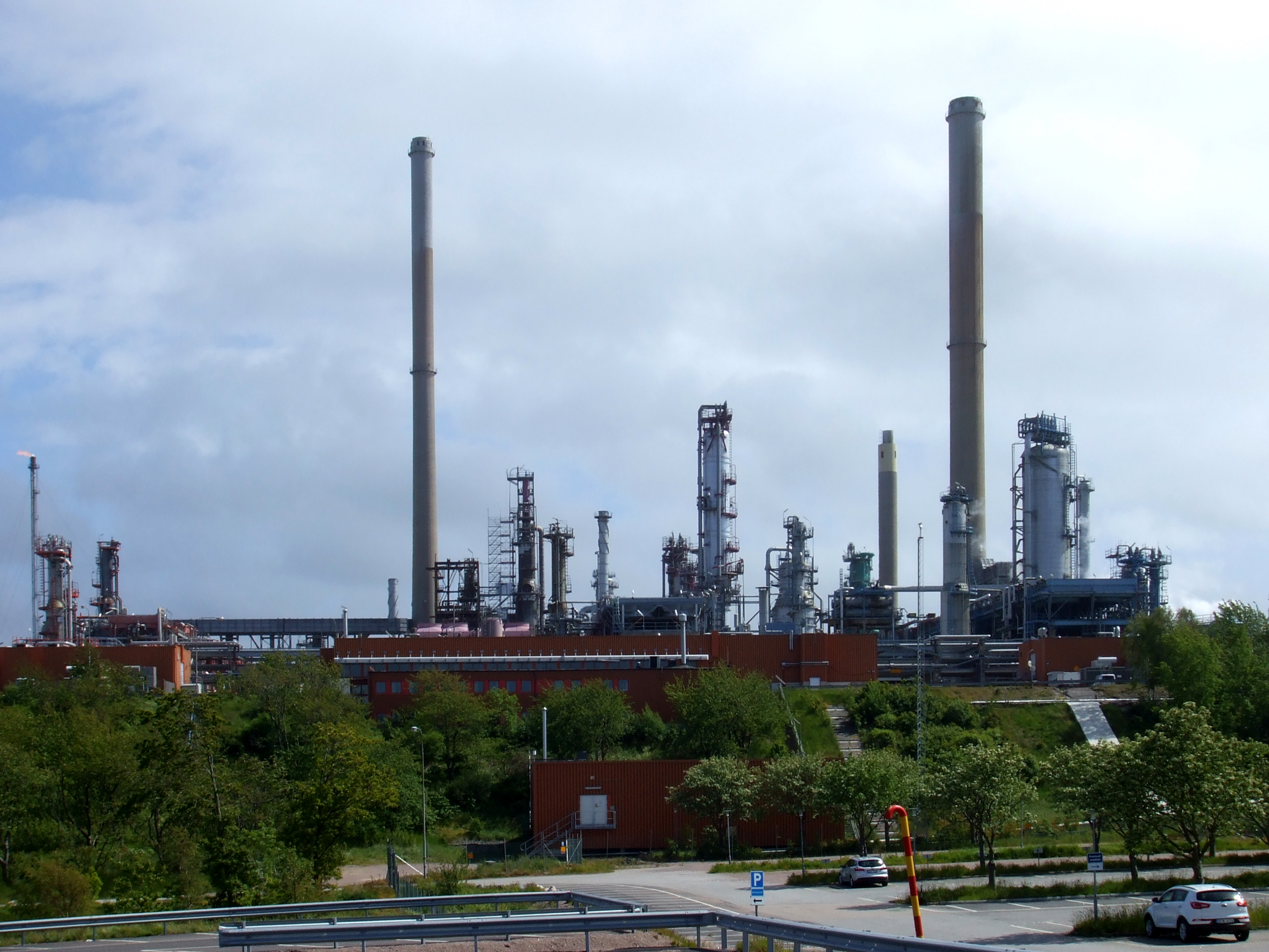 Processing towers at the Preemraff oil refinery in Lysekil, Sweden. Photon taken from the parking lot 7 June 2015.